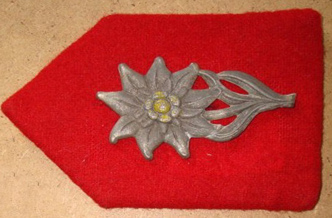 Insignia of partisan divisions of the Garibaldi Brigades Valsesia, and Valdossola Cusio-Verbano. Headed by the Delegation of Lombardy CNLAI August 1944 - April 25, 1945